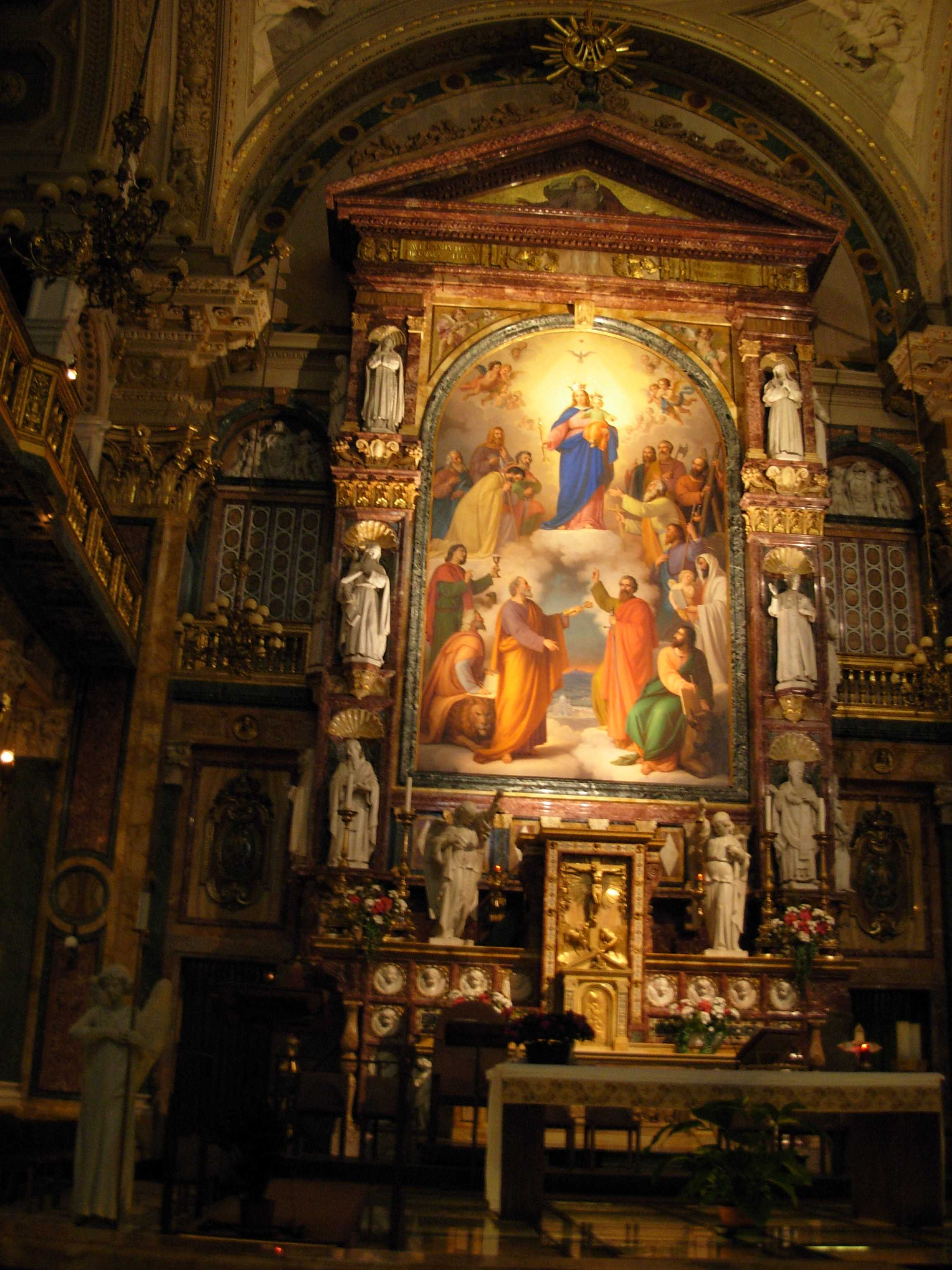 Main altar in church Maria Ausiliatrice from Thomaso Lorenzone painted in 1868